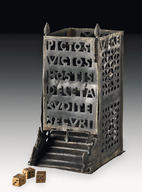 A photograph of the Vettweiss-Froitzheim Dice Tower. Roman, fourth century AD. (Rheinisches Landesmuseum Bonn)